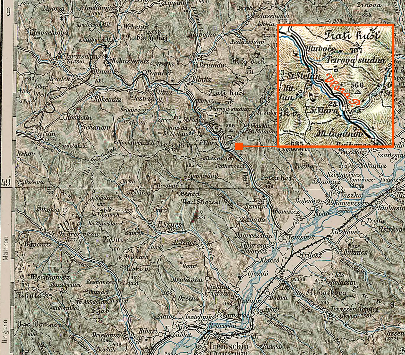 3rd Military Mapping Survey of Austria-Hungary - Trentschin